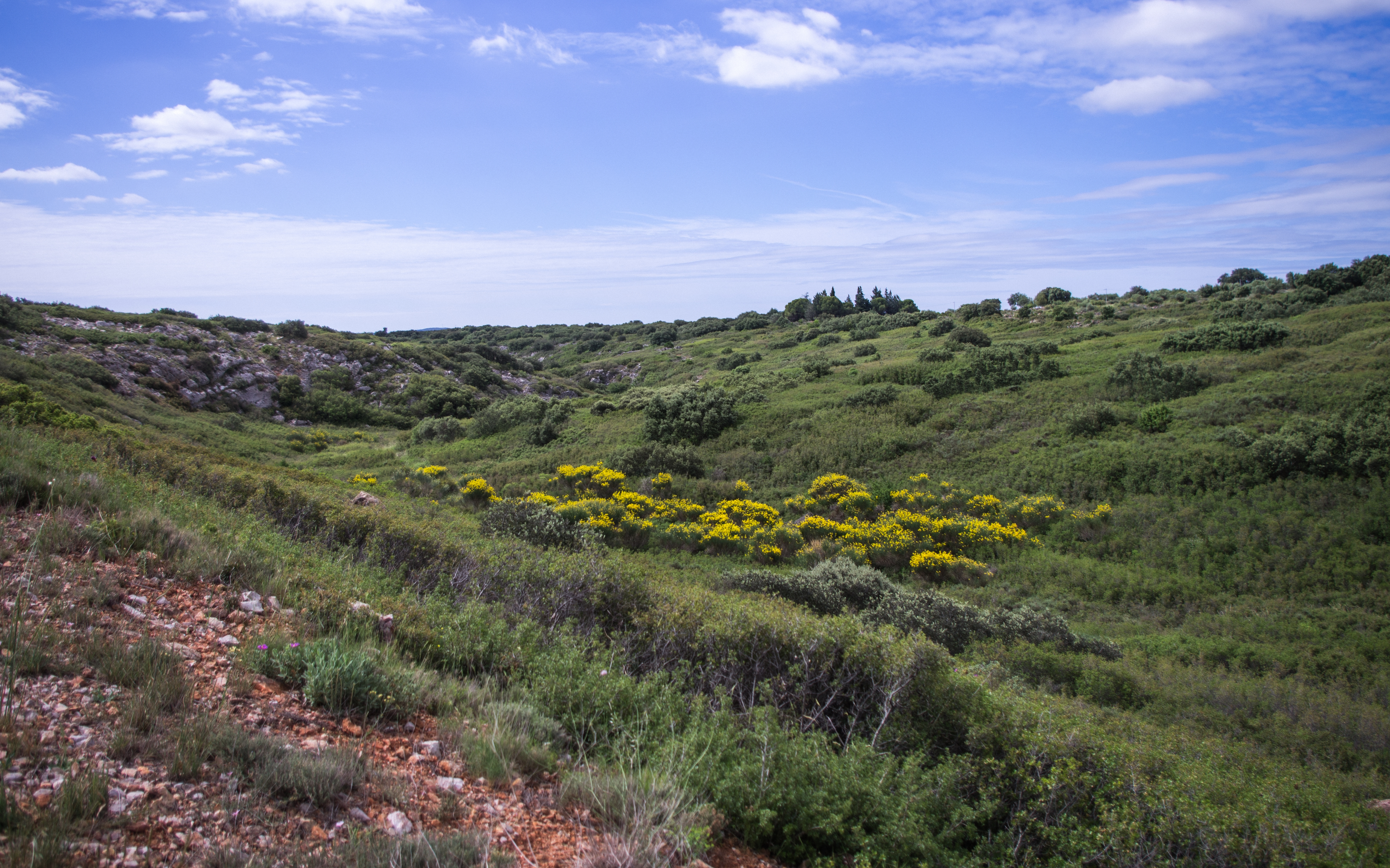 Garrigue in the commune of Montbazin, Hérault, France.